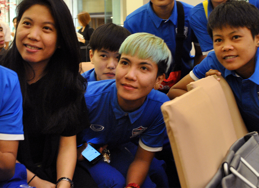 Darut Changplook